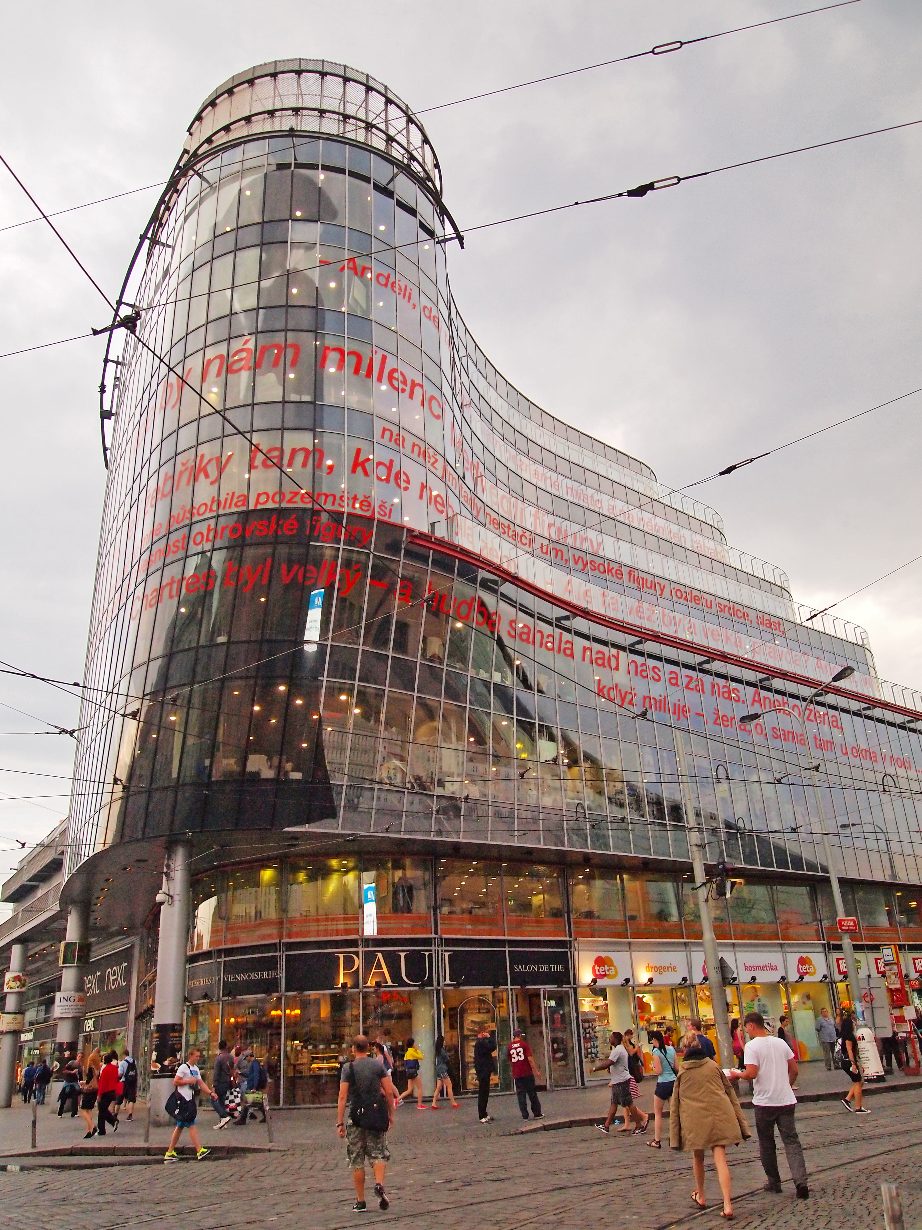 Building in Prague. This photograph was taken with an Olympus E-PL1